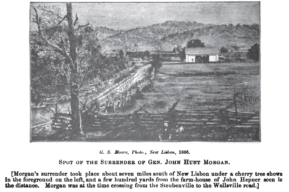 John Hunt Morgan surrendered here in civil war.